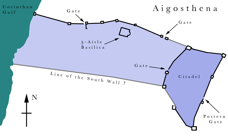 Plan of Ancient Aigosthena.J. M. Harrington, self-made image